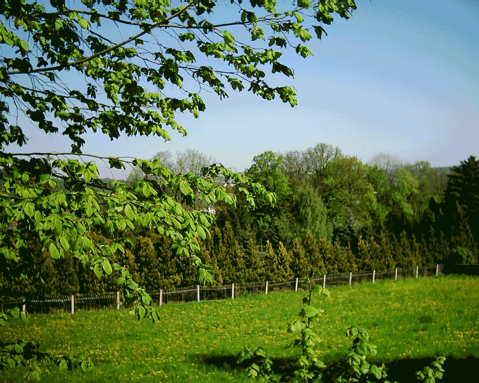 We know: „Trees are green!“. But each tree, each weadow, each leaf has an own green. They all have their "Chlorophyll", but each has a „individual“ quality.